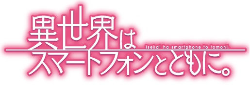 In Another World With My Smartphone Logo